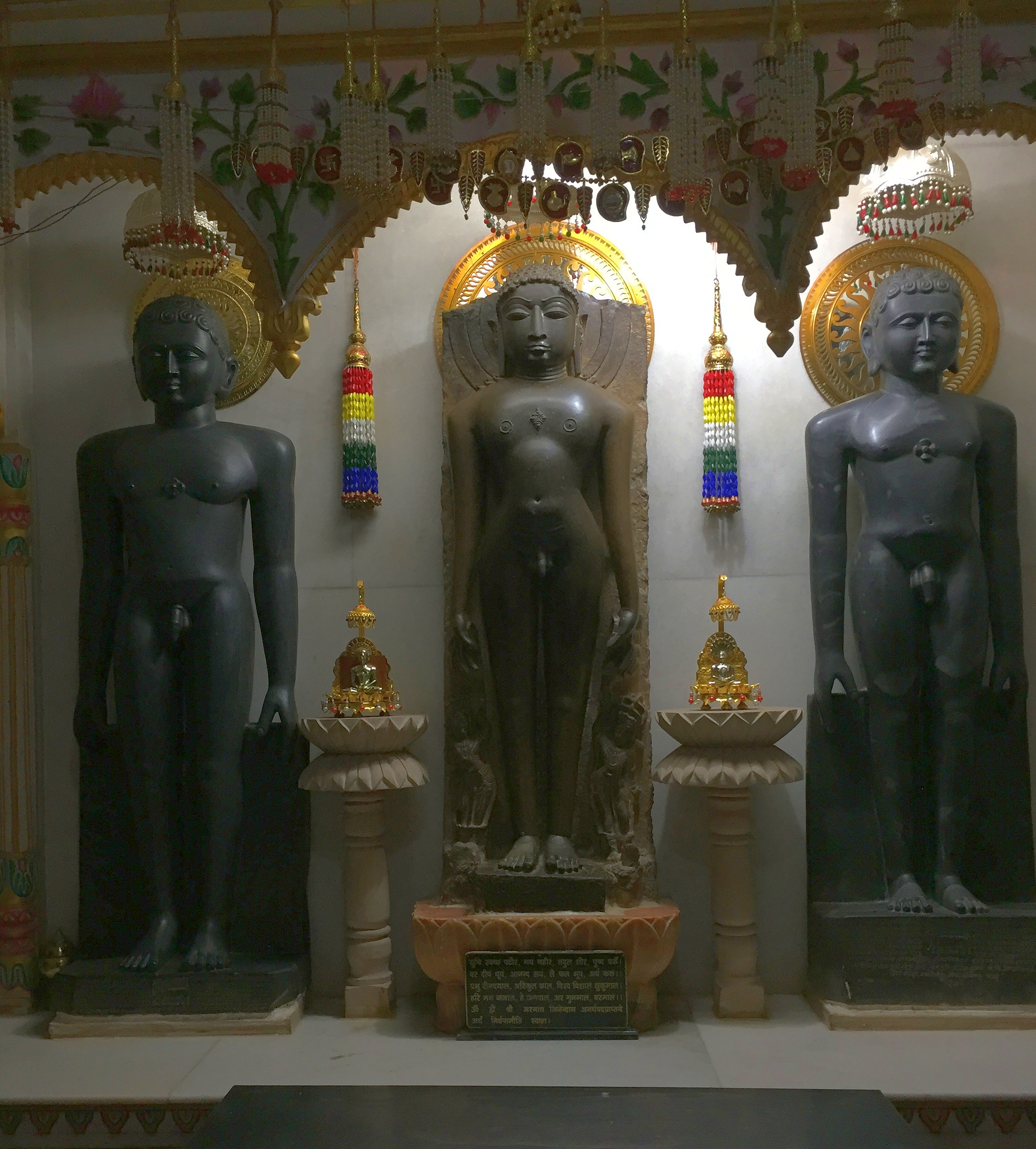 Lord Arnath at Navagarh Tirtha Kshetra